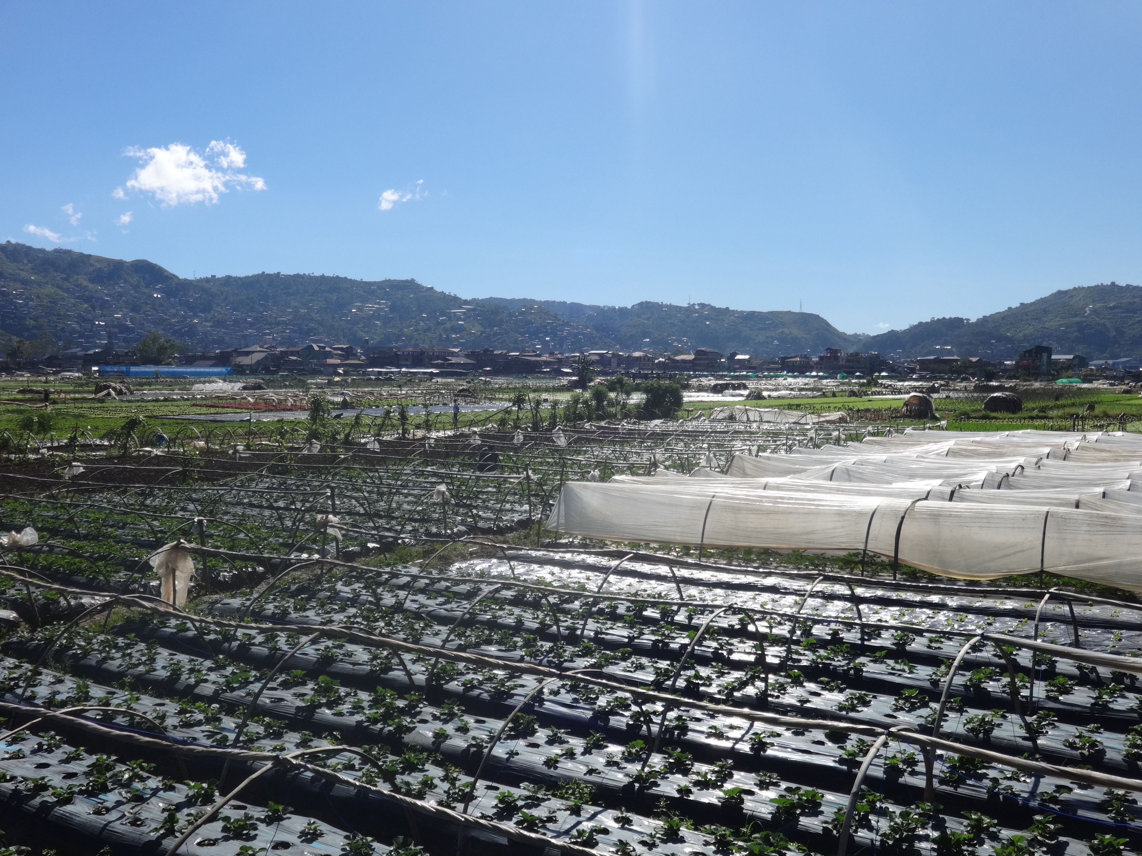 La Trinidad strawberry farms in Benguet